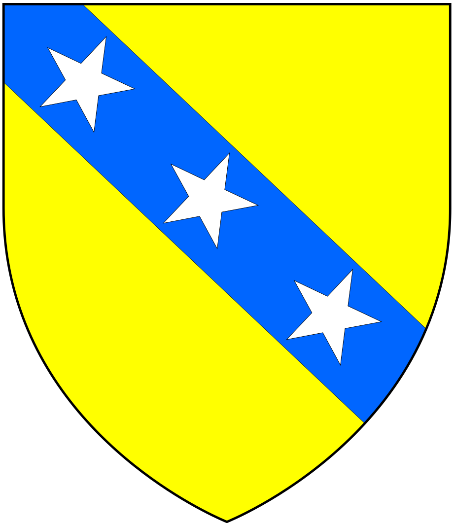 Arms of Winard (or Wynard) of Wonford (now part of the city of Exeter) and of Sharpham in the parish of Ashprington, both in Devon: Or, on a bend azure three mullets argent (Pole, Sir William (d.1635), Collections Towards a Description of the County of Devon, Sir John-William de la Pole (ed.), London, 1791, p.508, amended to field "or" as seen on Palmes illustrated pedigree roll). As seen sculpted on Wynard's Hospital onn Magdalen Street, Exeter, an almshouse founded in 1436 by William Wynard, Recorder of Exeter 1404-1442.